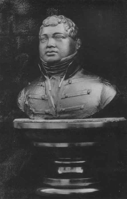 Wax portrait bust of Liholiho (Kamehameha II), made in London and brought to Hawaii aboard the Blonde with the bodies of the late King, and Queen Kamamalu. Its presentation to the bereaved court in Honolulu by Lord Byron in May, 1825, was the occasion of much grief and weeping. Gift to Bishop Musem (No. 8052) BY Mrs. E. K. Pratt, 1897